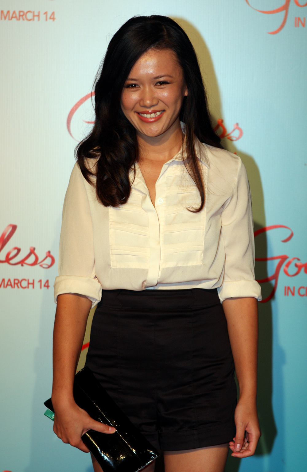 'Goddess' world premiere - Red Carpet event; Bondi Junction, Sydney, Australia... 'Goddess' enjoyed its Sydney, Australia premiere at Event Cinemas, Bondi Junction earlier this evening. Irish sensation Ronan Keating was there, as was West End and Broadway star Laura Michelle Kelly and much-loved comedian Magda Szubanski. Directed by: Mark Lamprell Starring: Ronan Keating, Magda Szubanski and Laura Michelle Kelly When a young mother mother of naughty twin boys Elspeth Dickens installs a webcam in her kitchen, her funny sink-songs make her a cyber-sensation. While husband James is off saving the world's whales, Elspeth is offered a chance of a lifetime. But when forced to choose between fame and family, the newly anointed internet goddess almost loses it all. Cast members attending world premiere: Ronan Keating, Laura Michelle Kelly, Magda Szubanski, Hugo Johnstone-Burt, Dustin Clare, Natalie Tran, Celia Ireland, Mike Goldman and director Mark Lamprell. Plot... Elspeth Dickens dreams of finding her "voice" despite being stuck in an isolated farmhouse with her twin toddlers. A web-cam becomes her pathway to fame and fortune, but at a price. Websites Village Roadshow Australia Eva Rinaldi Photography